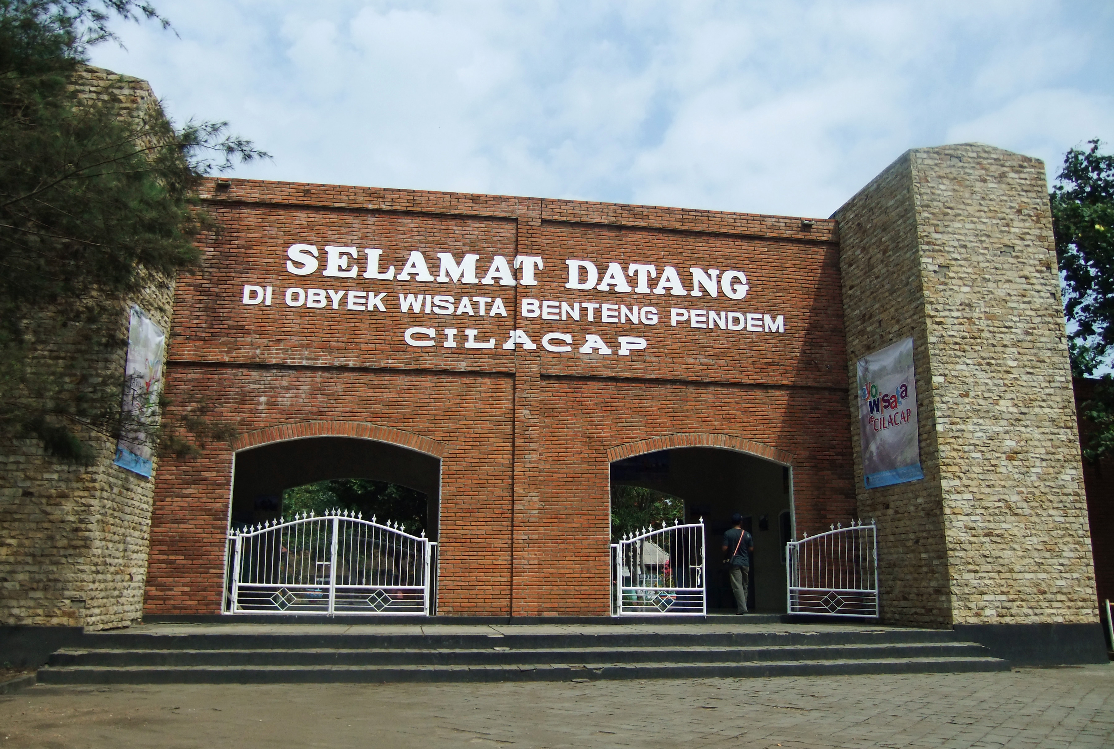 Dutch fortress Benteng Pendem, built 1861-1879 by Dutch East Indies Army.